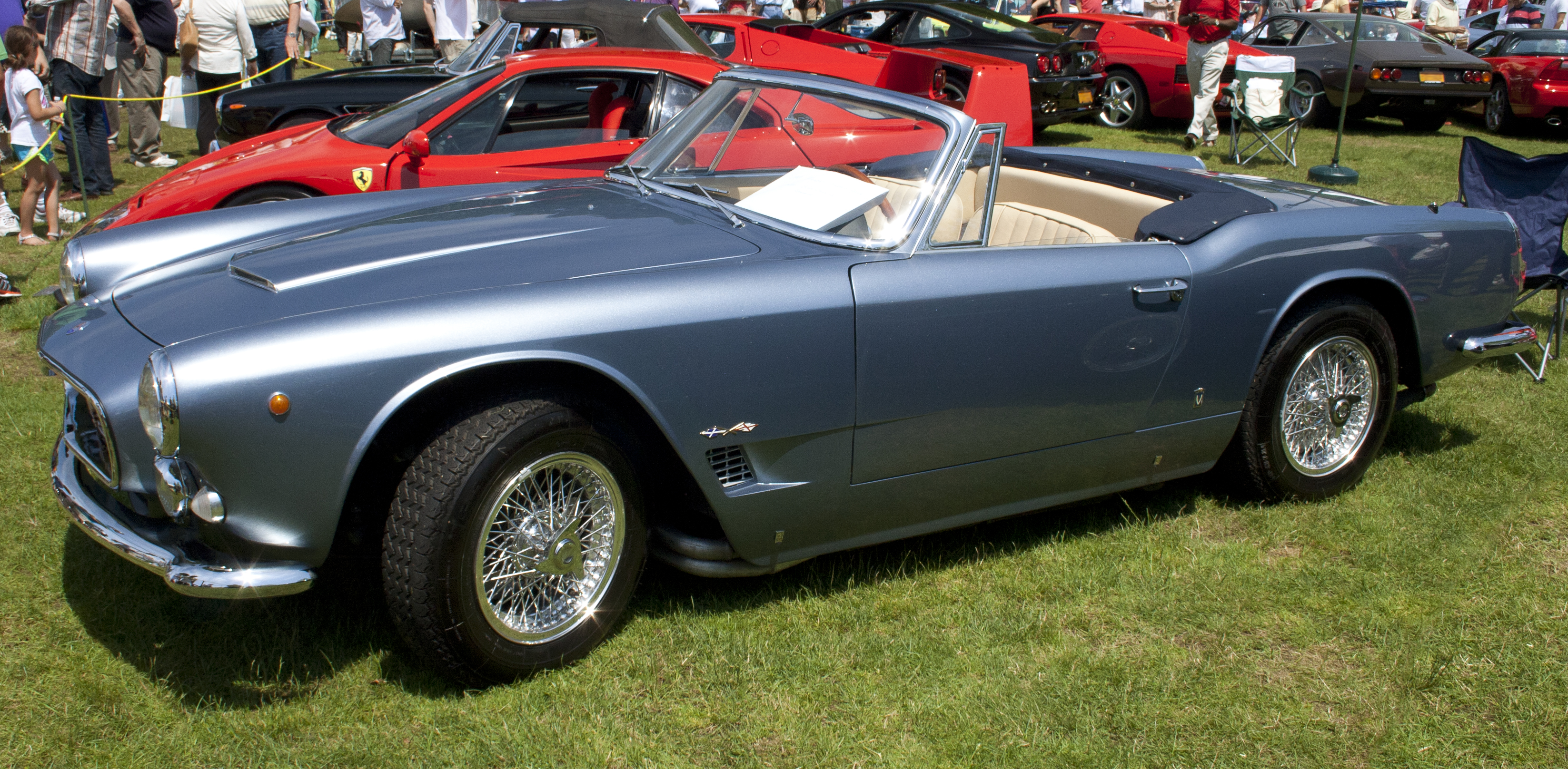 Maserati 3500 GT Spyder by Vignale at the 2012 Greenwich Concours d'Elegance.